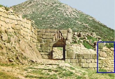 I have processed this photo myself